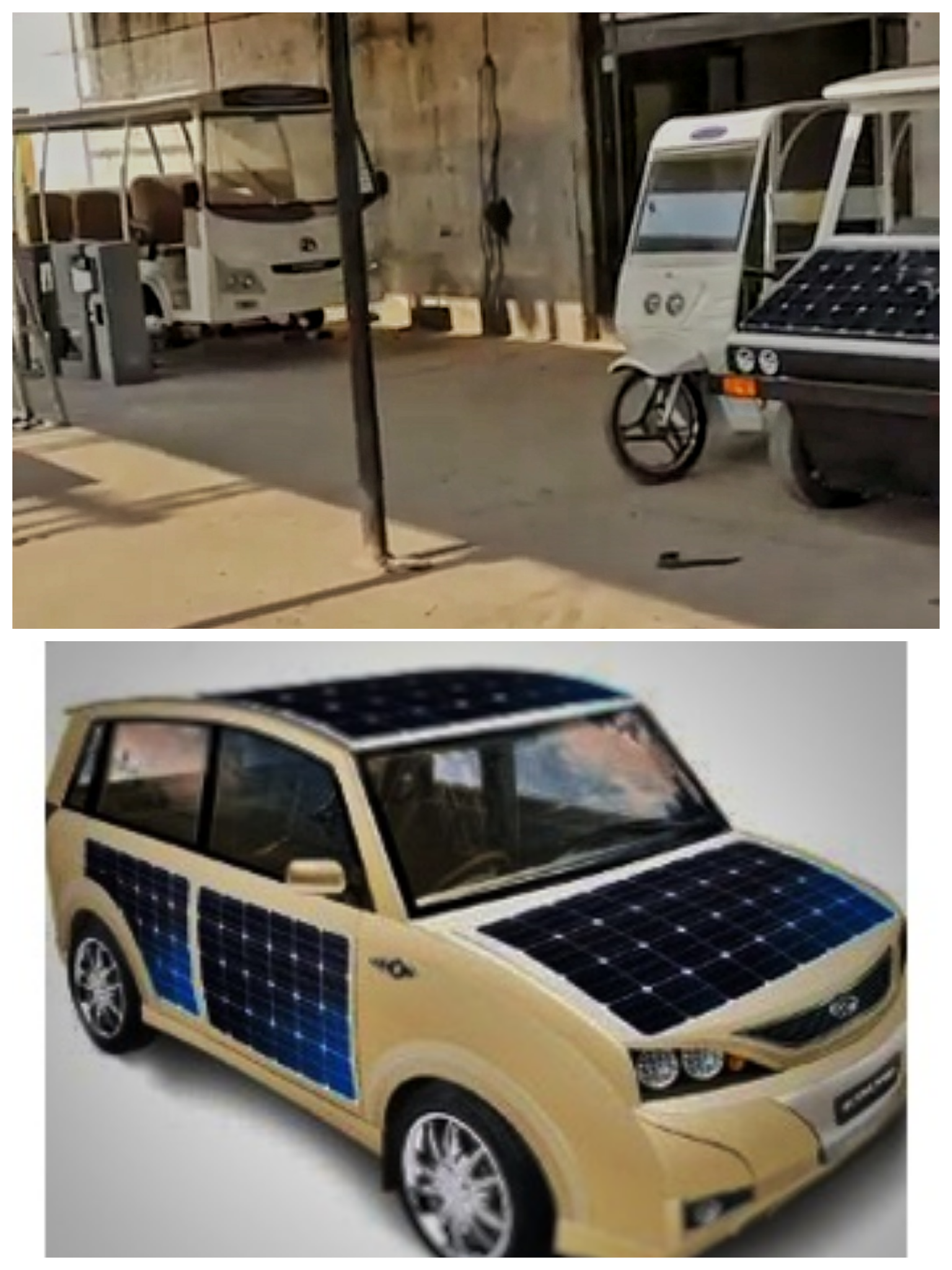 Economia is a Pakistani based company that specializes in the manufacturing of Solar vehicles.